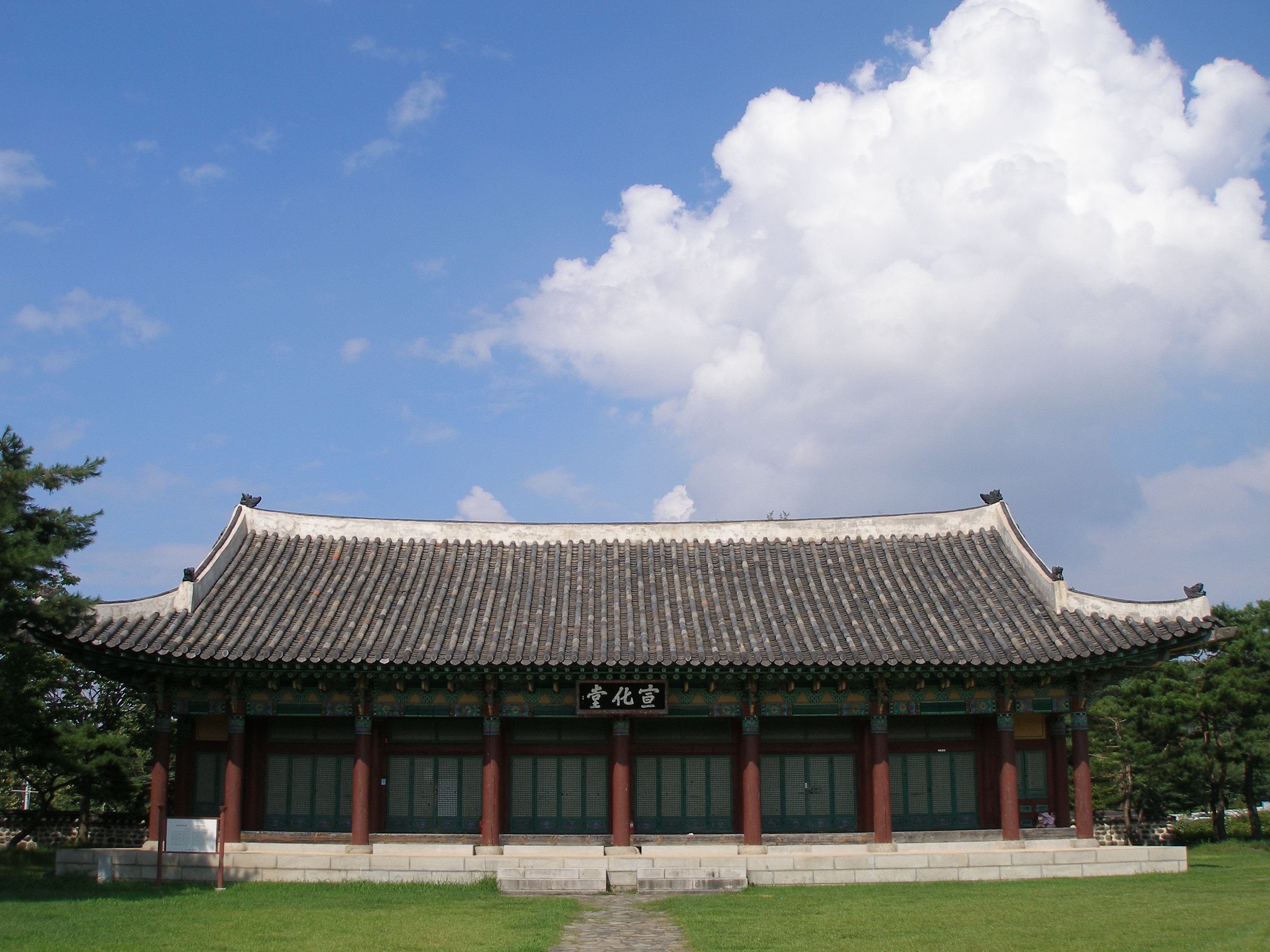 Seonhwadang in Gongju, provincial administrial office of Joseon danasty